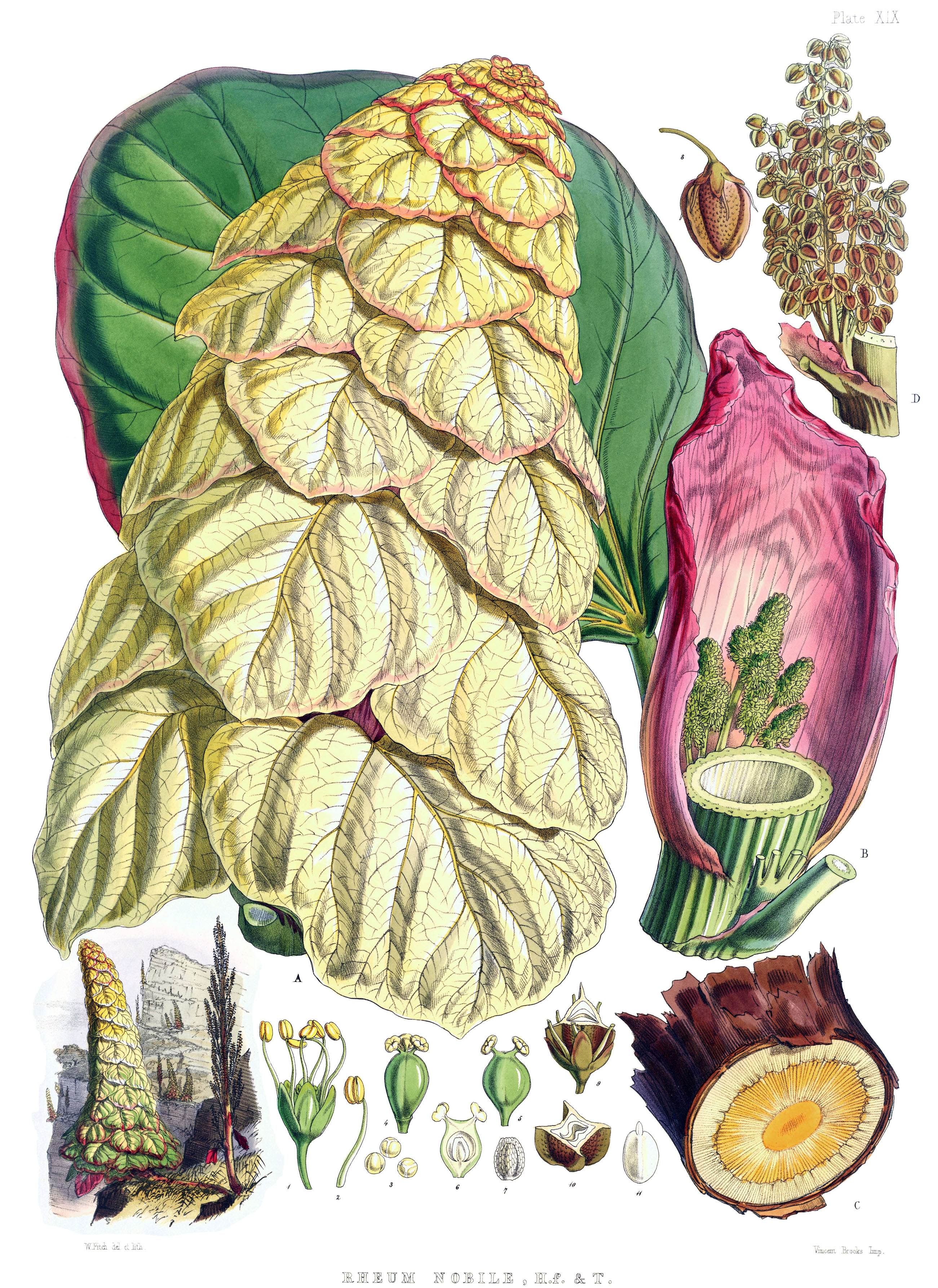 Rheum nobile. Original caption: "Plate XIX. Fig. 1. Flower. 2. Stamen. 3. Pollen. 4, 5. Ovaria. 6. Vertical section of ovarium. 7. Ovule. 8. Ripe fruit. 9,10. Transverse sections of ditto. 11. Embryo. :—all magnified.